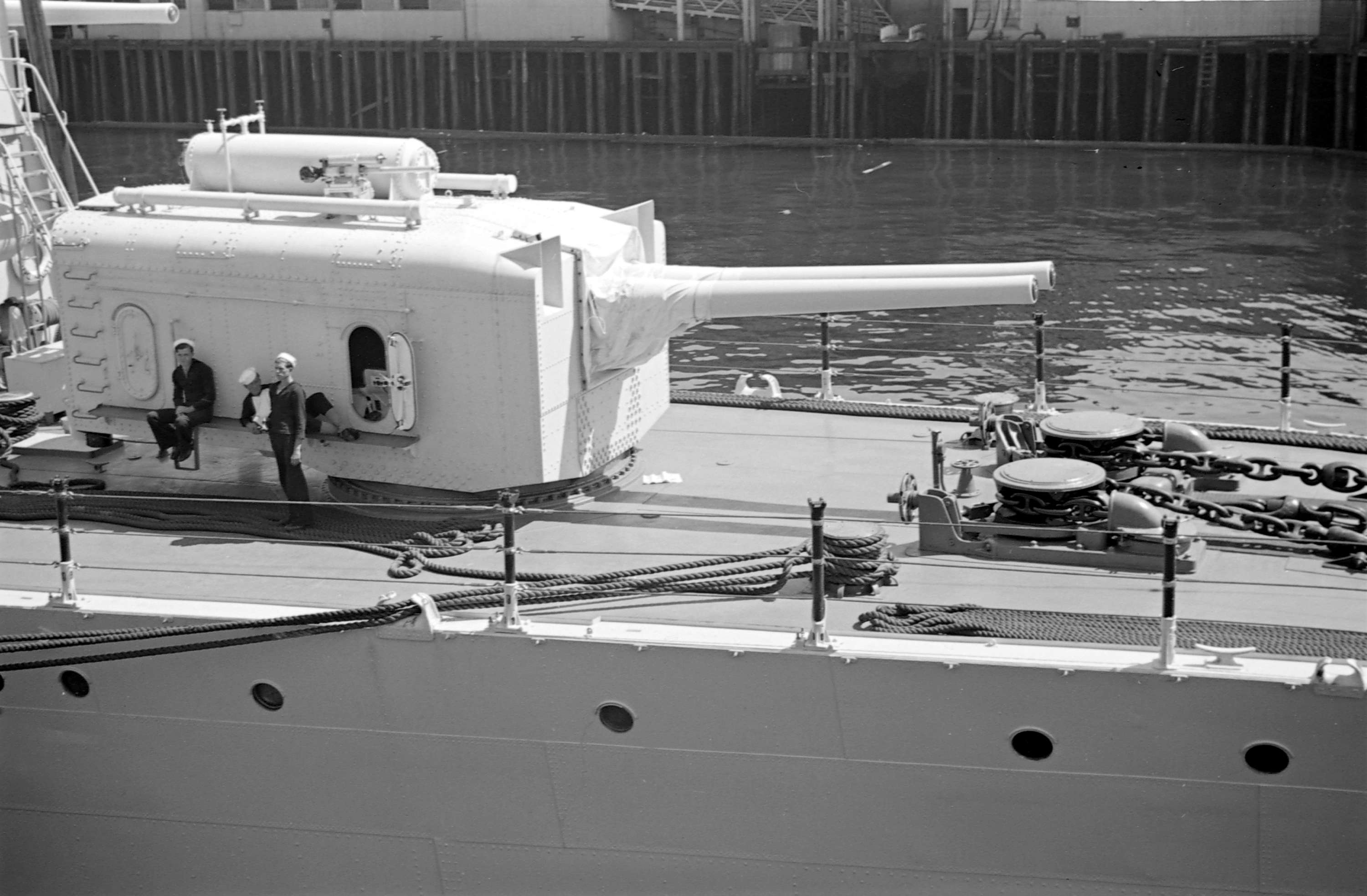 Sailors beside twin 6-inch gun turret on USS Cincinnati at Vancouver.